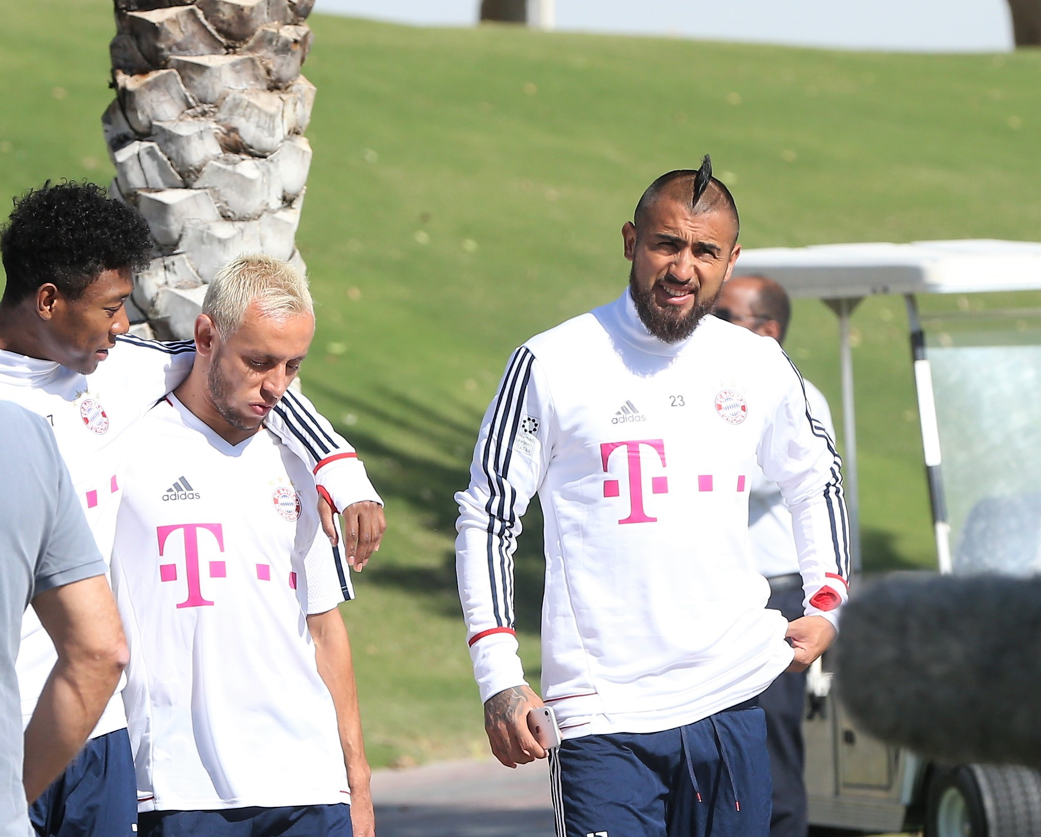 FC Bayern Munich practice in Doha ASPIRE zone